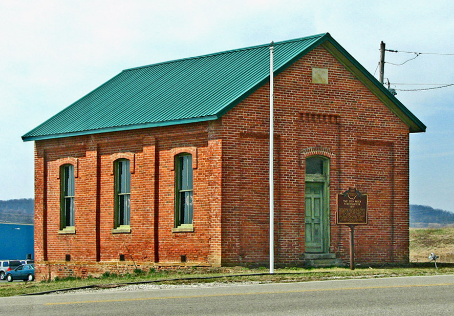 A former school located on the northwestern corner of the intersection of Biers Run and Pleasant Valley Roads in Twin Township, Ross County, Ohio, United States.